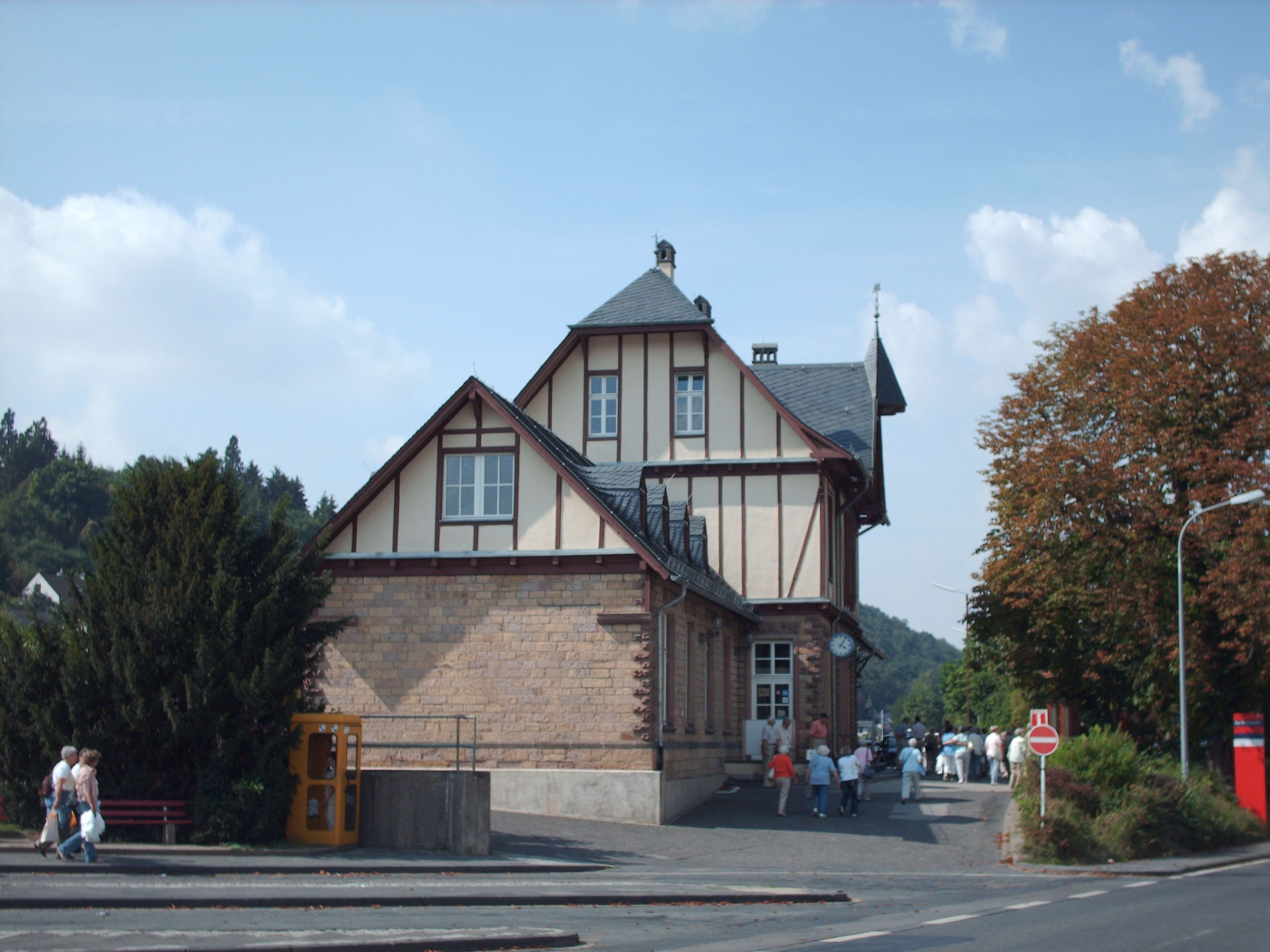 Bad Münstereifel station, Bad Münstereifel, Germany check usage